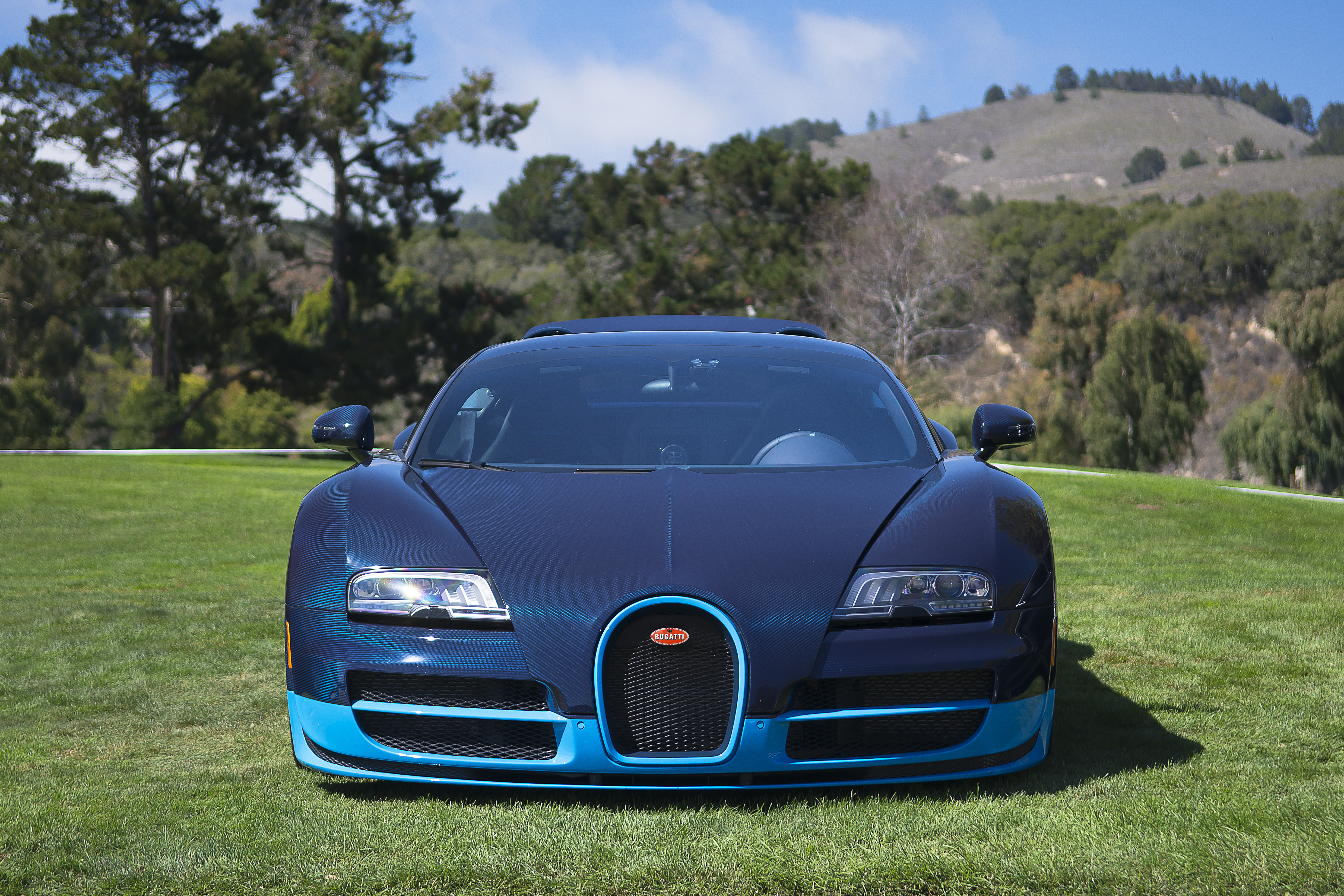 Bugatti Veyron Vitesse Bleugatti spotted at the Quail parking lot in Monterey California. Just started editing my Car Week 2014 photos... this is going to take a while. (cc) Creative Commons Personal and Commercial with Attribution. If you use this photo make sure you source with a link back to my site at